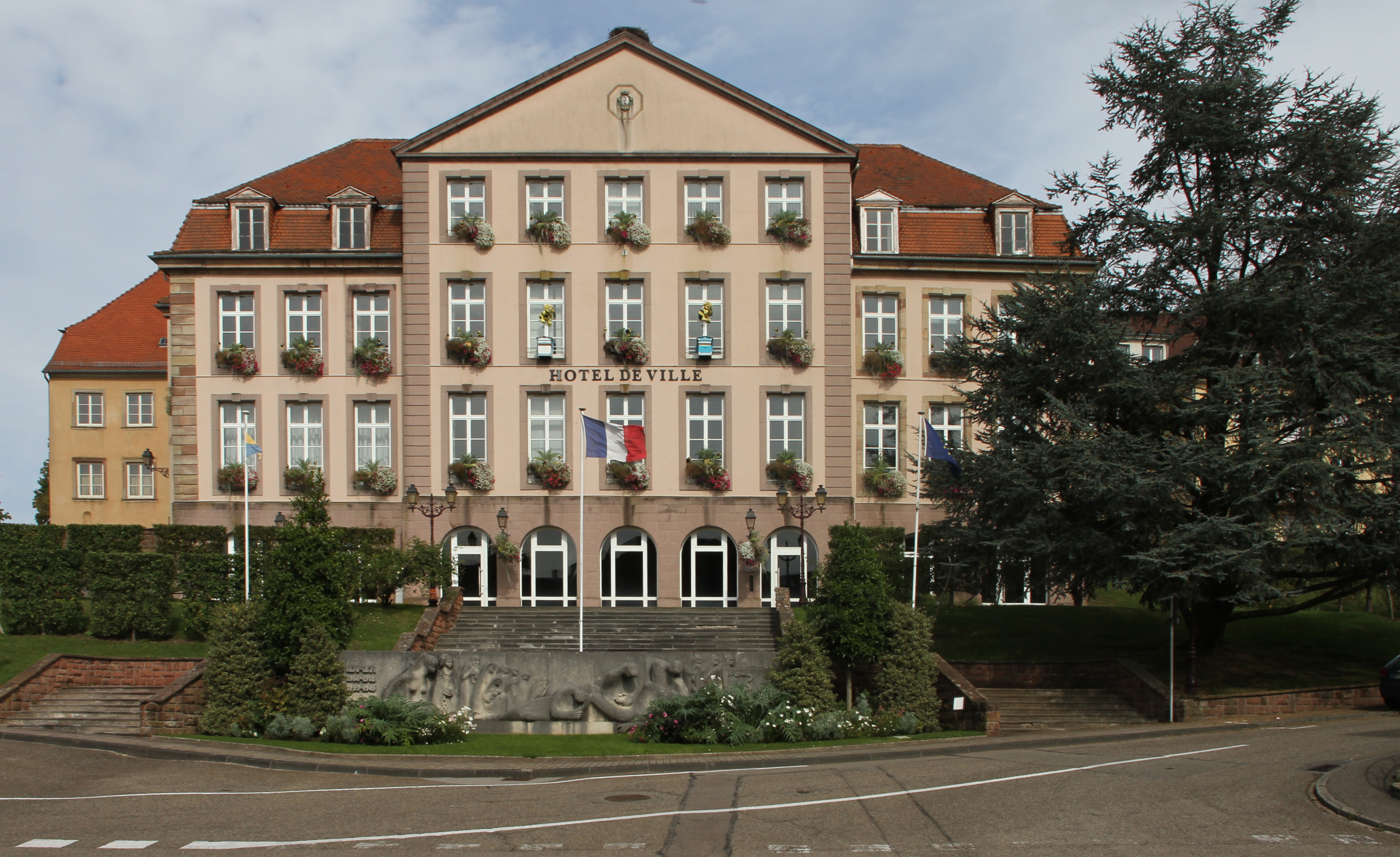 City hall of Bitsche